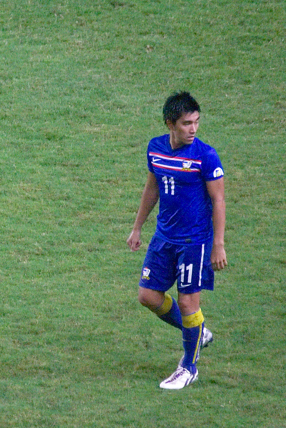 Thailand's Rangsan Viwatchaichok during the World Cup 2014 third round qualifying match against Oman at Rajamangala Stadium